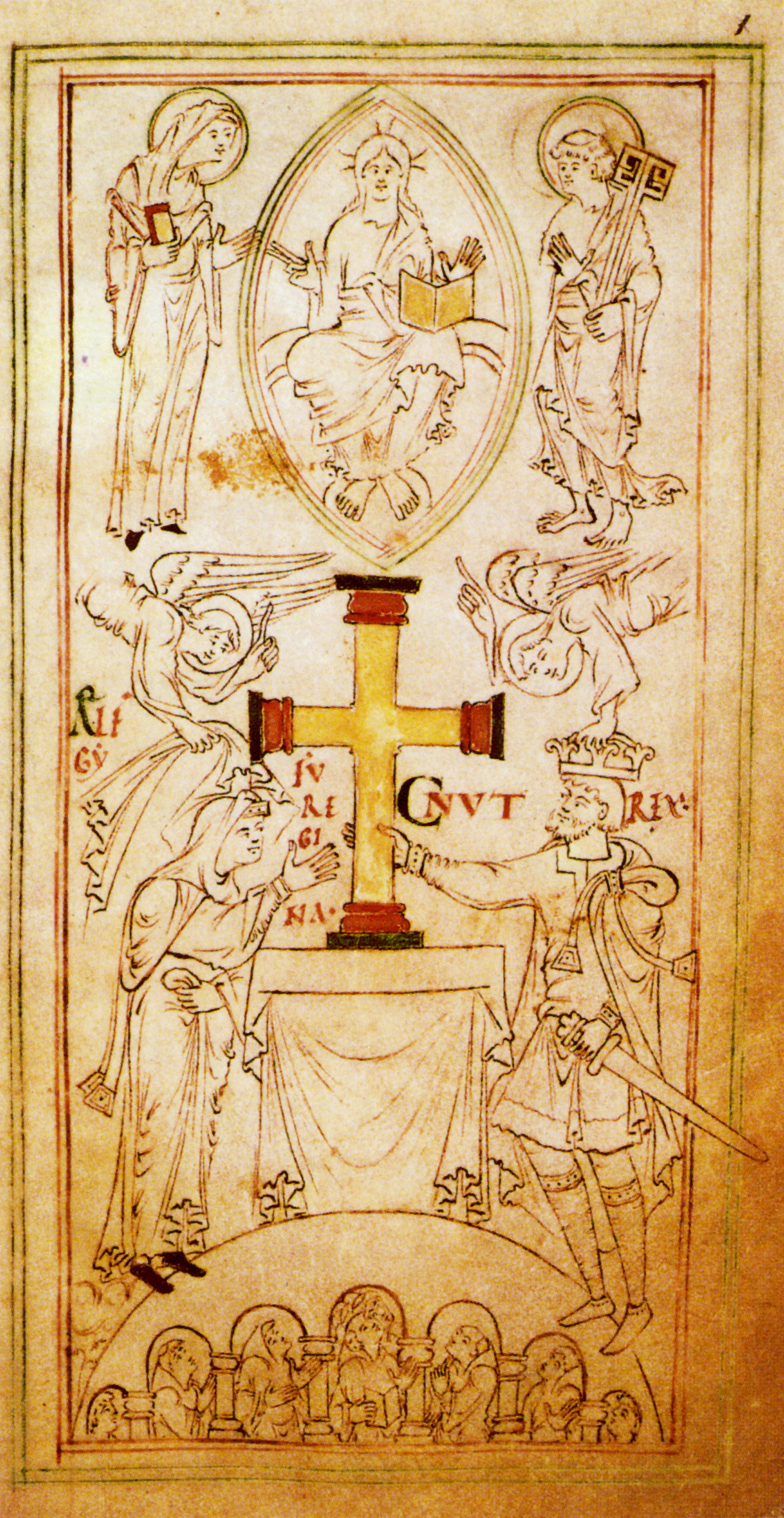 This image is a JPEG version of the original PNG image at File: Canute and Ælfgifu.png. Generally, this JPEG version should be used when displaying the file from Commons, in order to reduce the file size of thumbnail images. However, any edits to the image should be based on the original PNG version in order to prevent generation loss, and both versions should be updated. Do not make edits based on this version. See here for more information. Canute the Great, c.995-1035 and Emma of Normandy, c. 985-1052. for more detailed desciption. Illuminated manuscript, Liber Vitae, 1031, Stowe Ms 944, folio 6, The British Library.